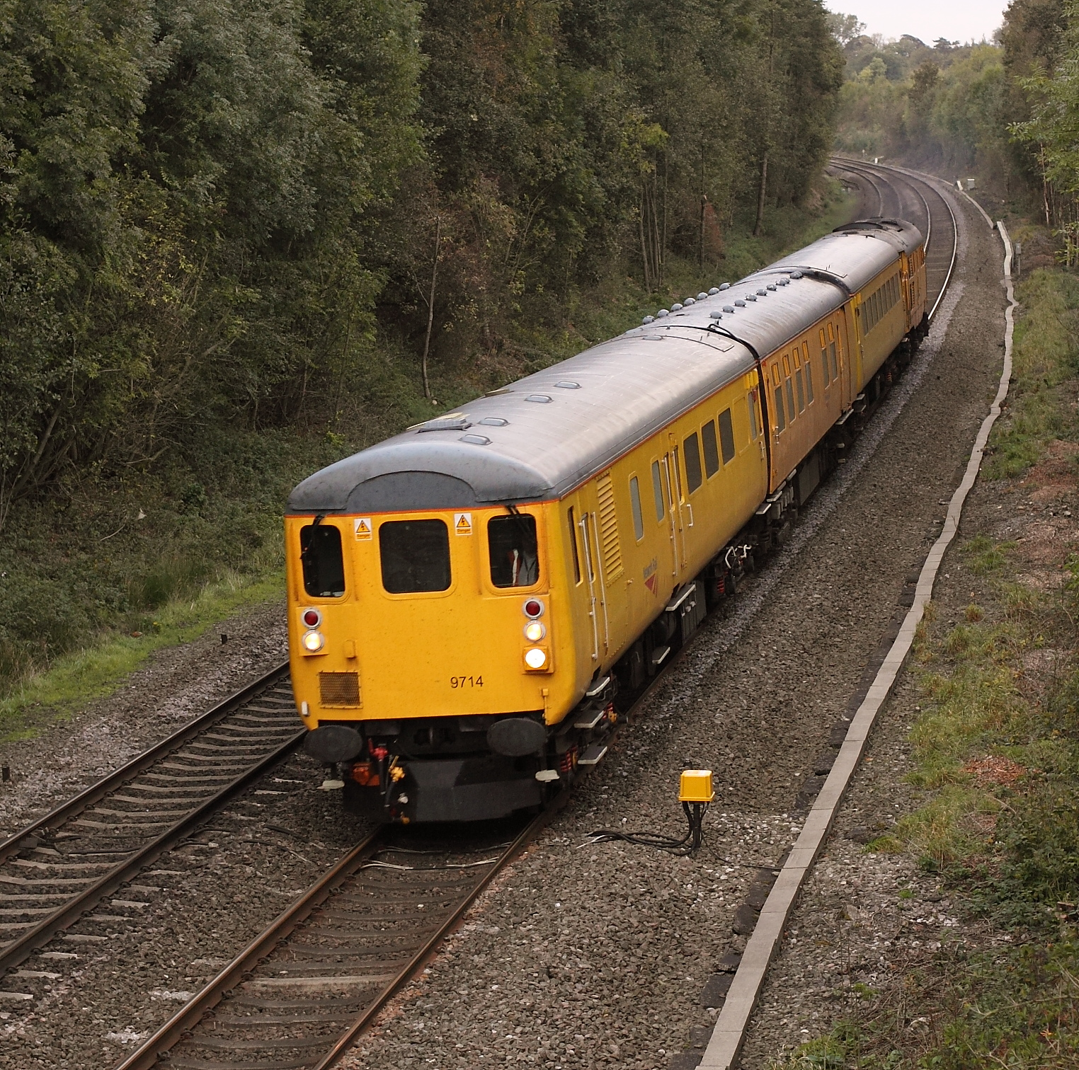 9714 leads 1Q14 Heaton - Derby RTC past Ogston , 31233 was propelling